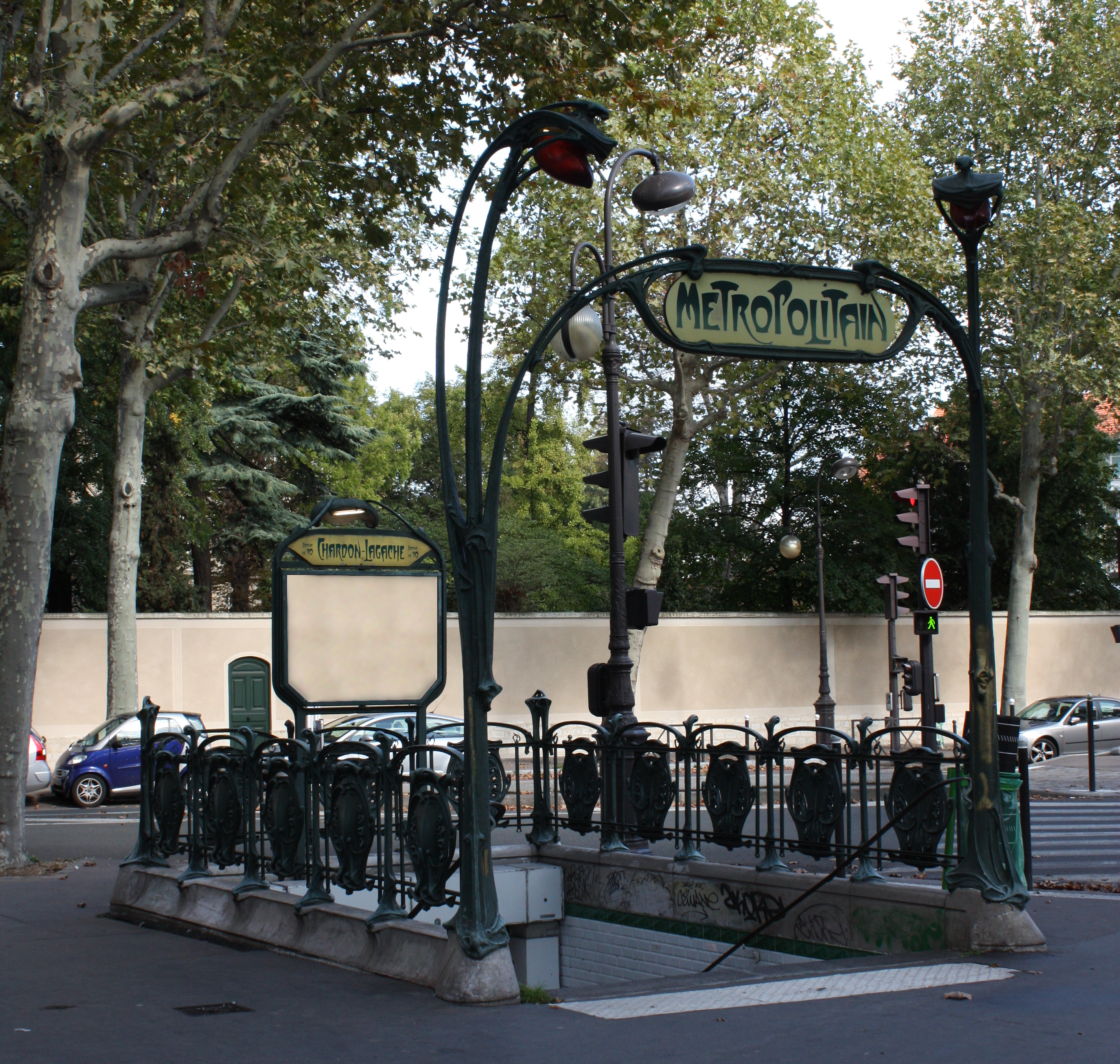 external decoration by Guimard - Paris tube station Chardon-Lagache